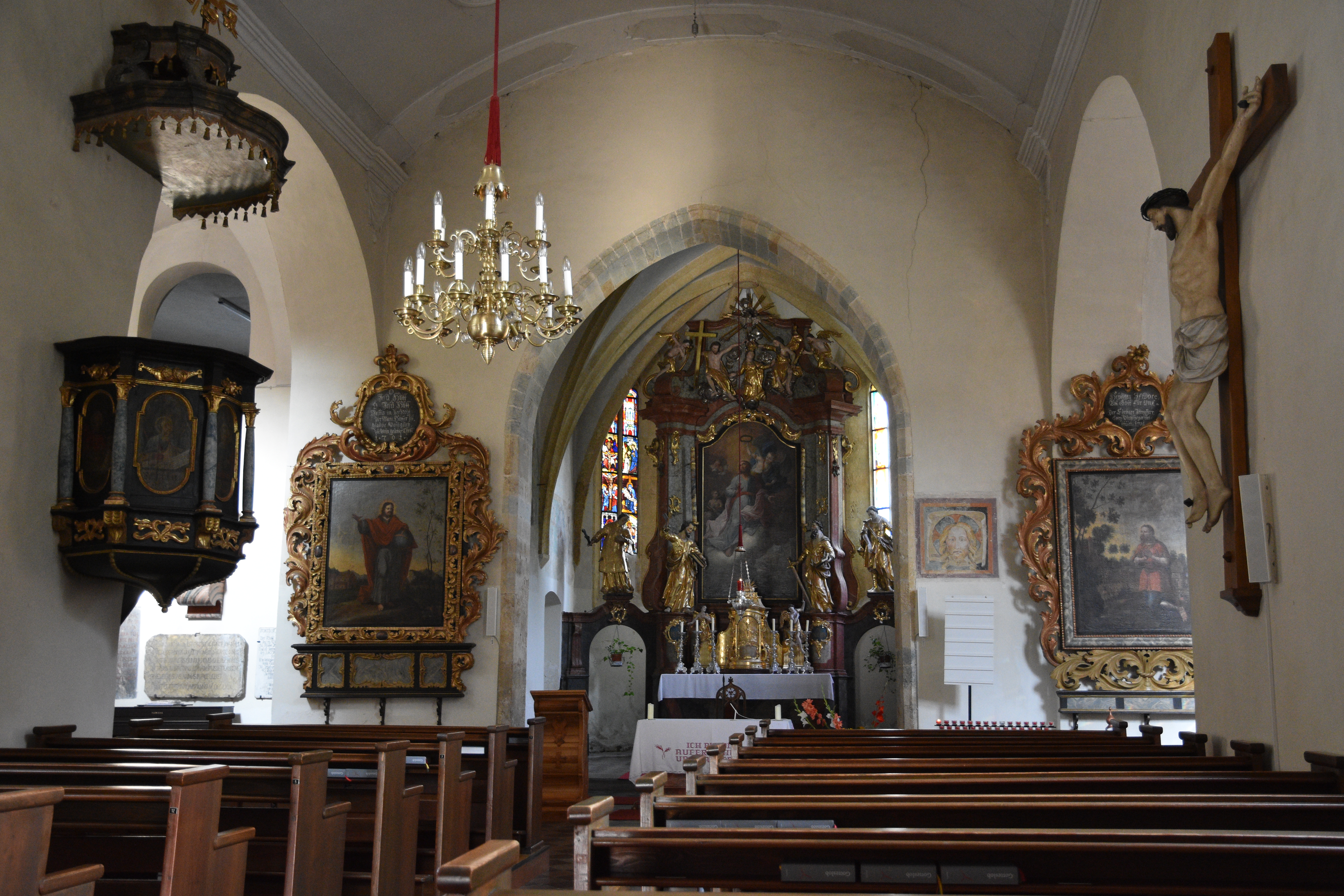 Church Kath. Filialkirche hl. Jakob in der Breitenau und ehem. Friedhof am Hochlantsch